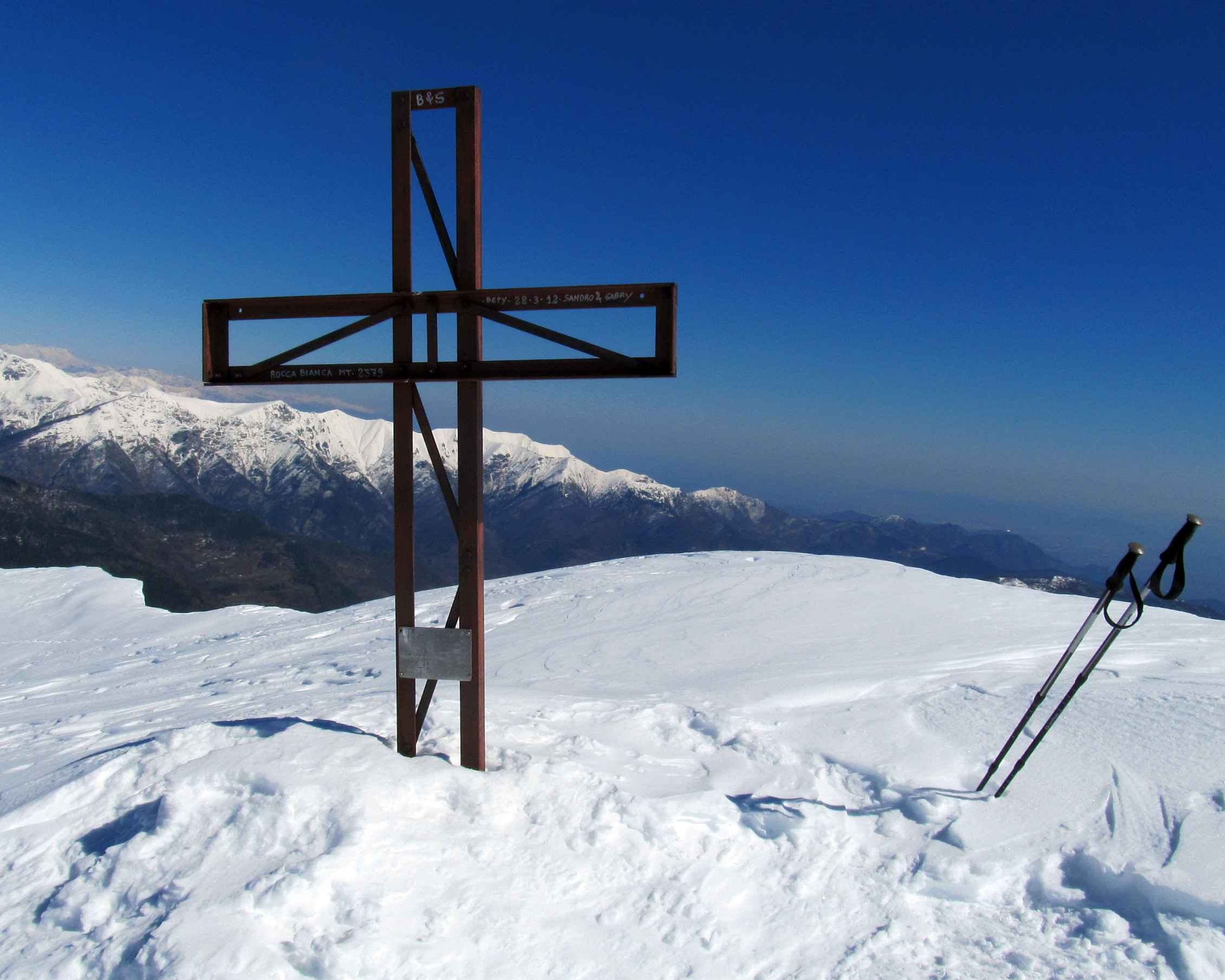 Rocca Bianca (Cottian Alps; To, Italy): the cross near the mountain topPiemontèis: La Ròca Bianca (Val Germanasca): la cros ën 'sla sima